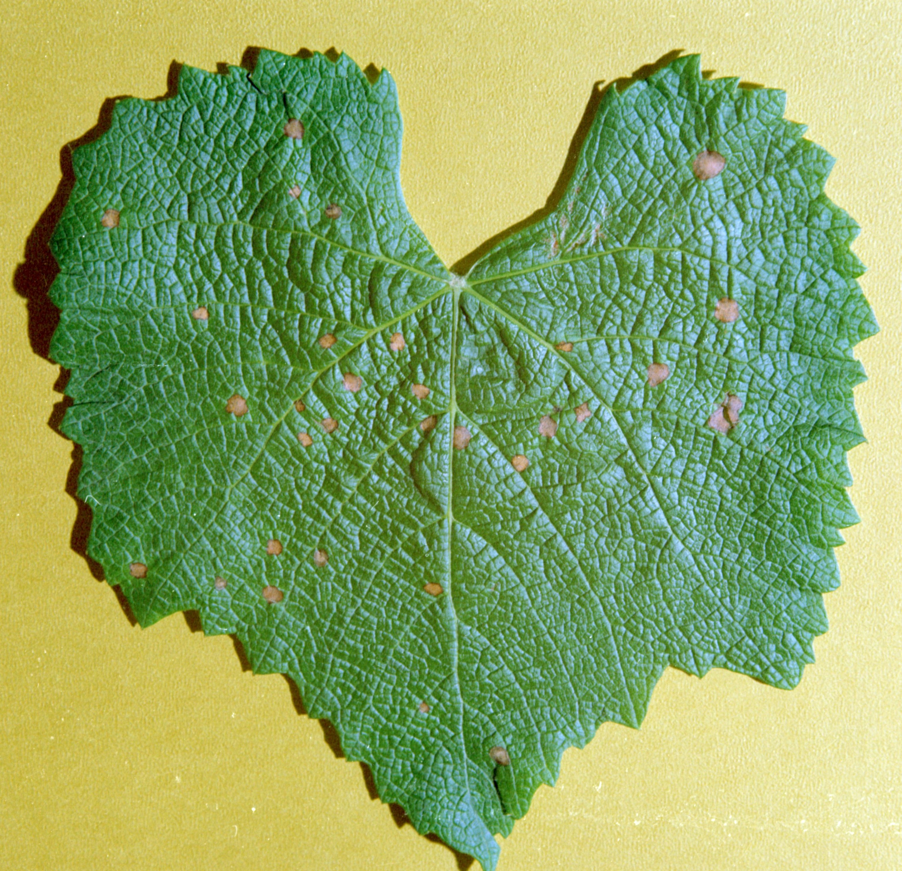 Symptoms of Guignardia bidwellii (black rot) on grape leaf